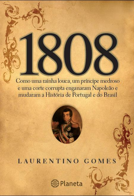 1808 cover, by Brasilian journalist Laurentino Gomes